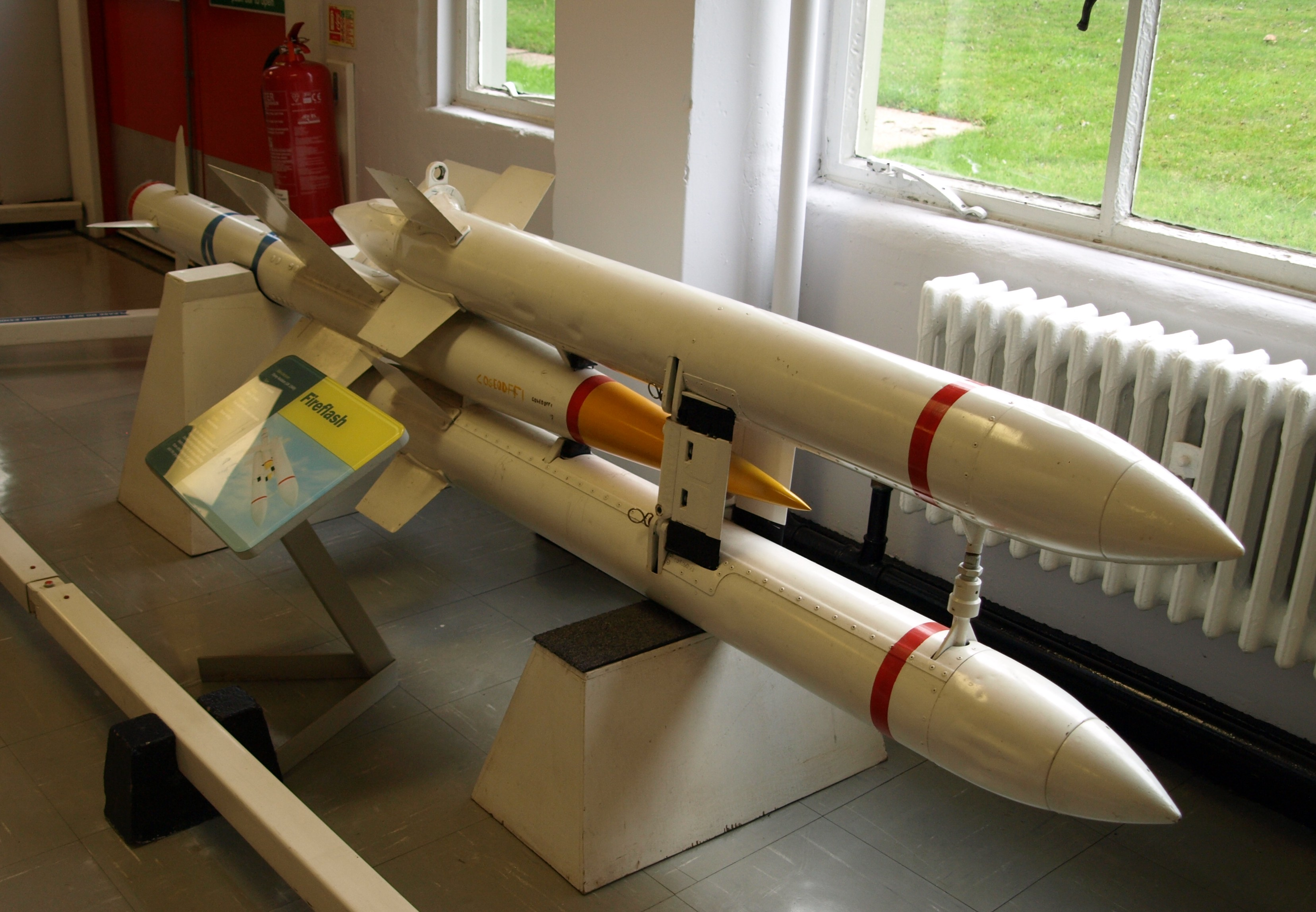 Faire Fireflash air-to-air missile on display at the RAF Museum Cosford